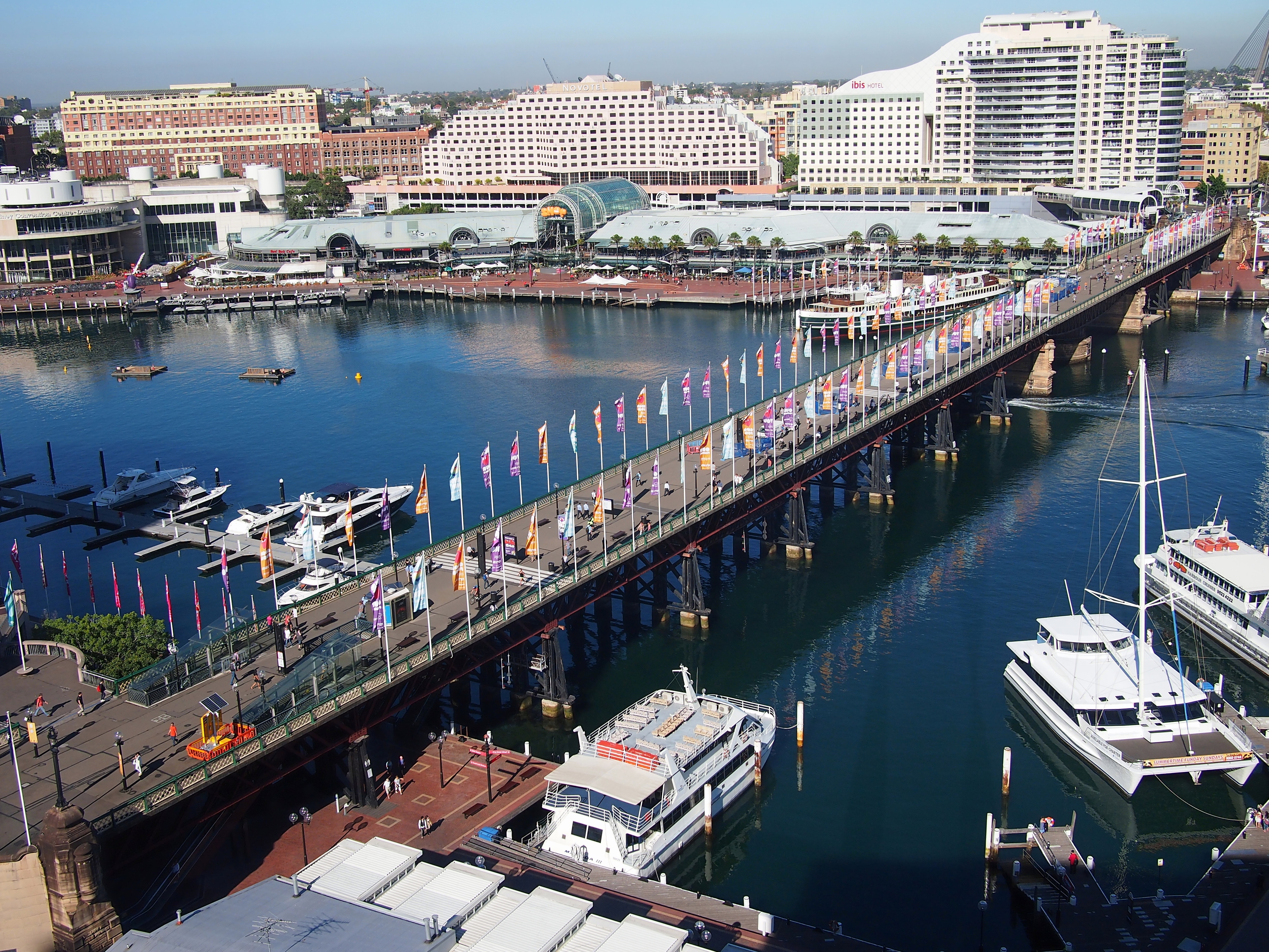 Pyrmont Bridge viewed from the north-east, after removal of the monorail track.